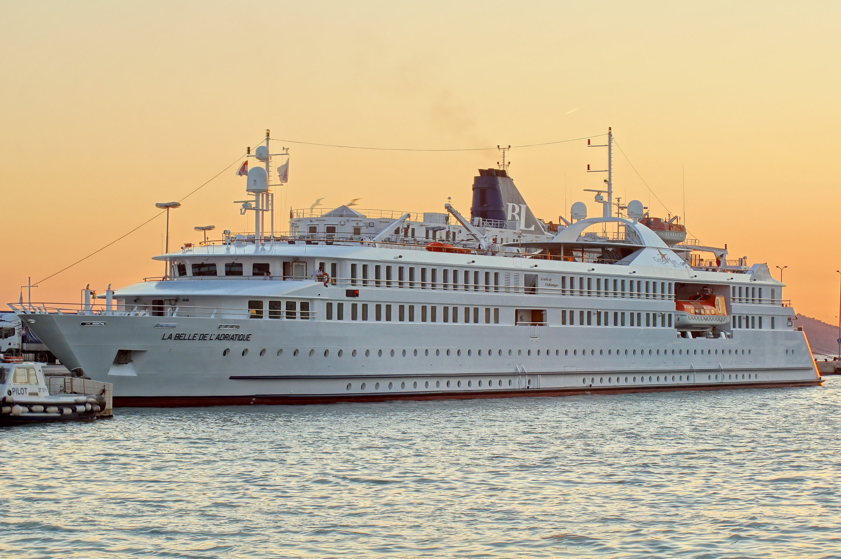 La Belle de l'Adriatique (ship, 2007) IMO 9432799: in Split, 2011-10-03; At the Saint Domnius Quay